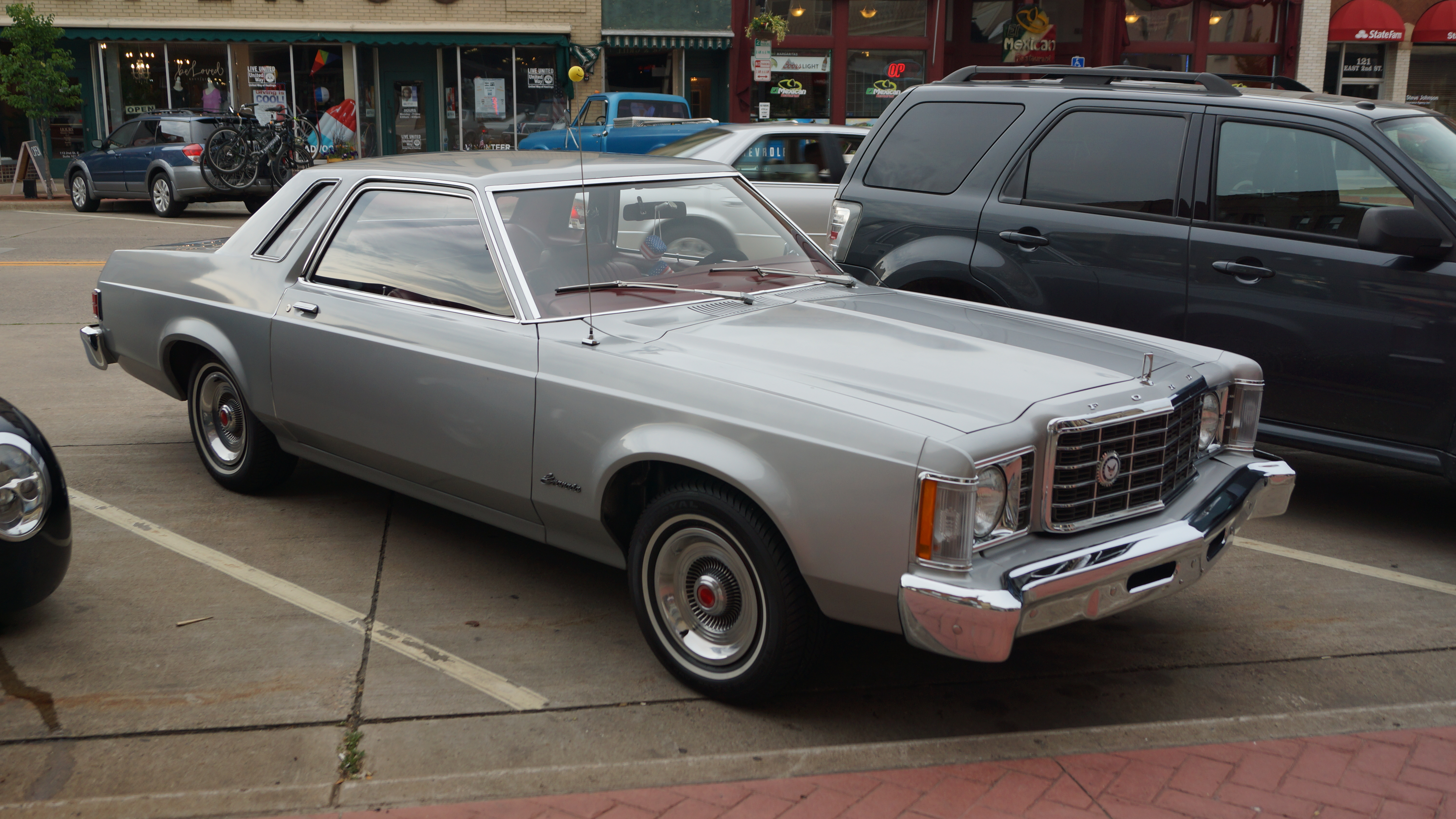 HISTORIC DOWNTOWN HASTINGS CRUISE-IN & CLASSIC CAR SHOW Hastings, Minnesota June 30, 2018 Click here for previous Hastings Cruise Night pictures Click here for more car pictures at my Flickr site. Or here for my Car Crazy Tumblr site. Or on Twitter @DVS1mn.